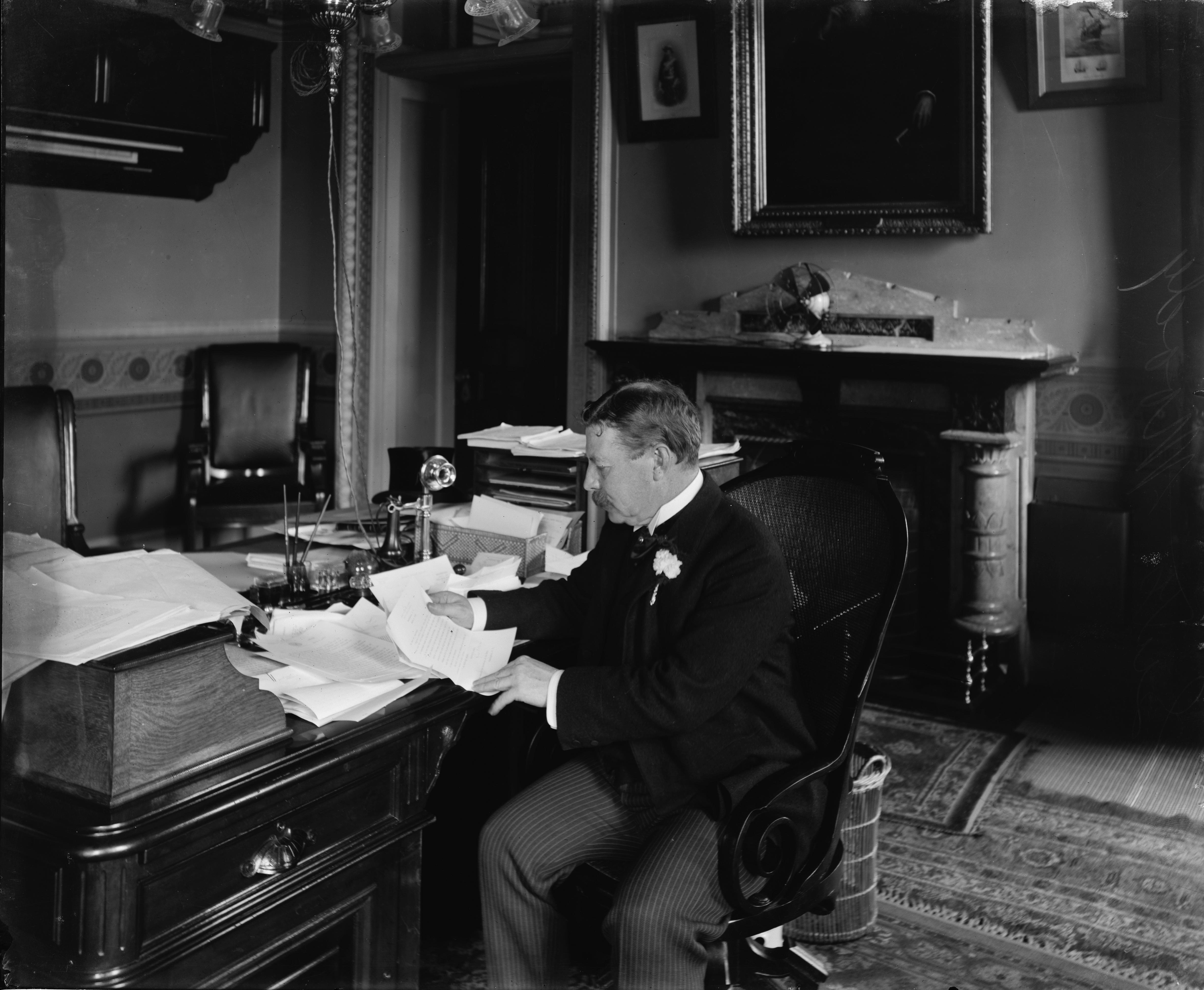 William Henry Moody. Library of Congress description: "Moody, Mr. Wm. H., made in his office at Supreme Court".